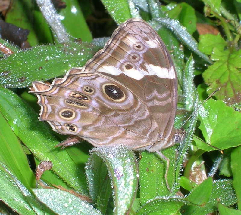 Common Treebrown, Lethe rohria, butterfly found at Talakaveri, Coorg, India (Bamboo Treebrown, per Amol Patwardhan)